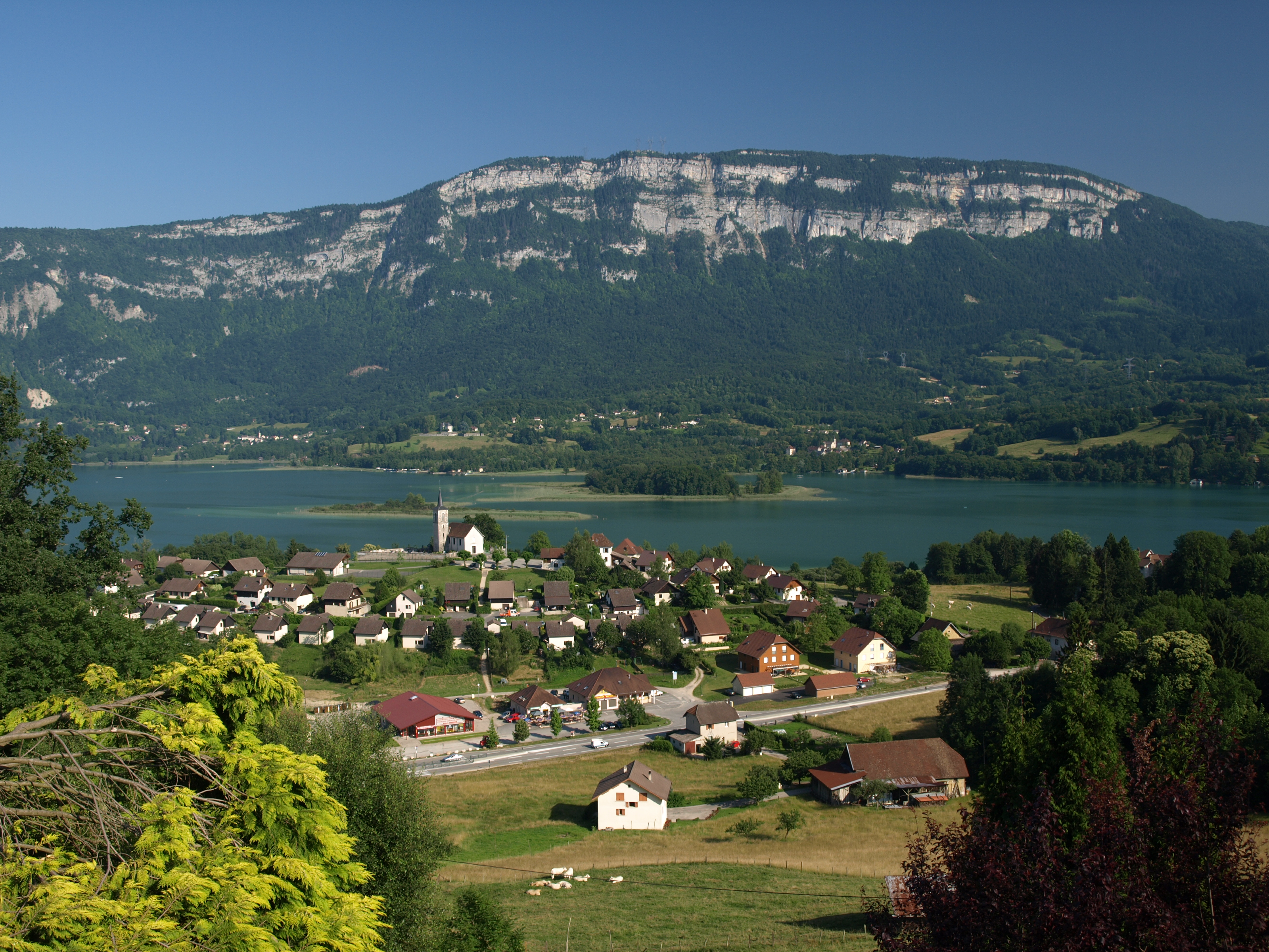 A large view of Saint-Alban de Montbel with Aiguebelette's lake and Mont Grêle mountain.